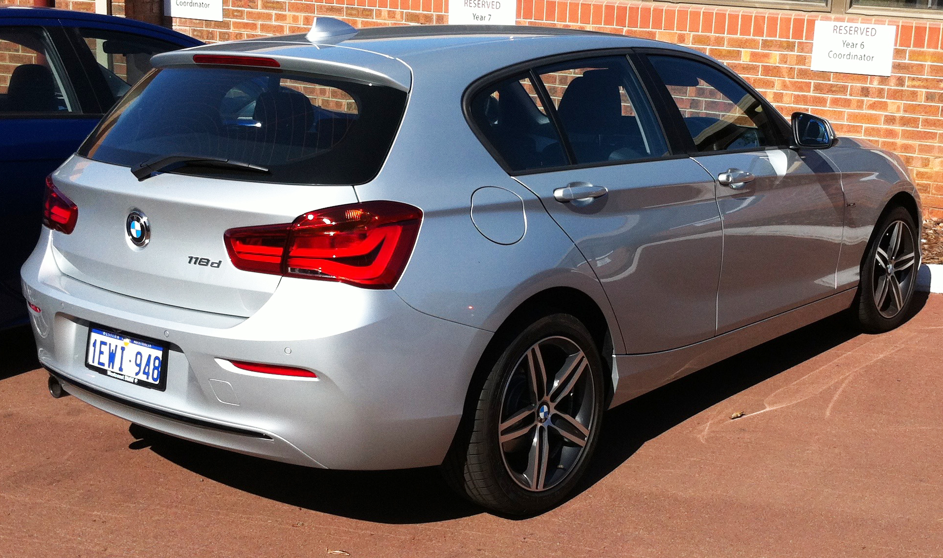 2015 BMW 118d (F20 LCI) 5-door hatchback. Photographed in Swanbourne, Western Australia Australia.